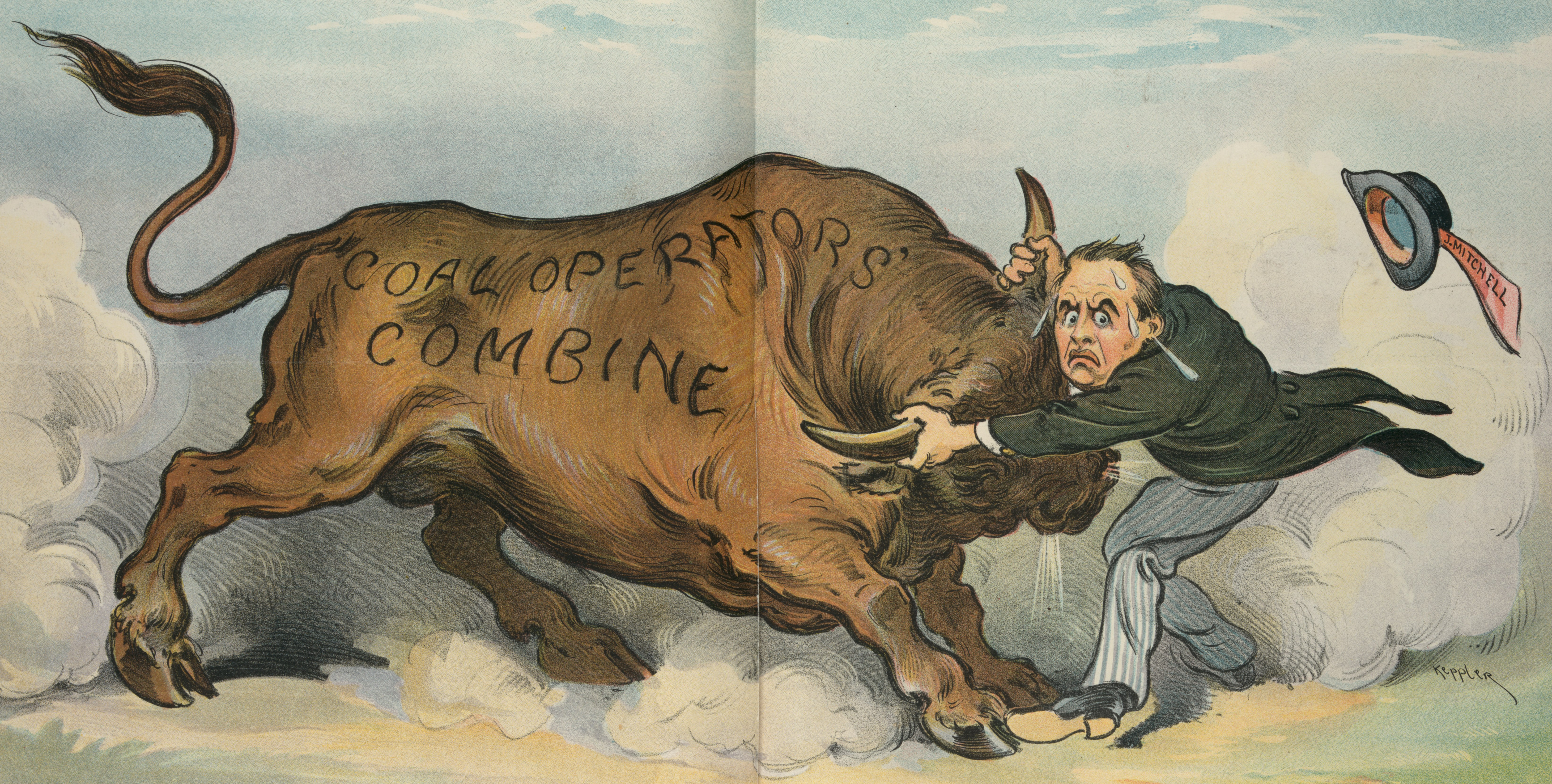 Title: He took the bull by the horns; but-- / Keppler. Abstract/medium: 1 print : chromolithograph.